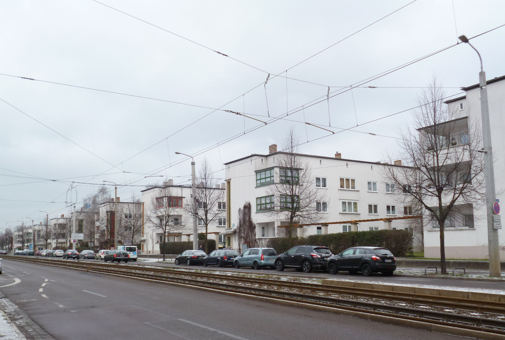 Housing scheme Vogelweide, built in 1930/1931, architect: Heinrich Faller, street Vogelweide, Halle (Saale)